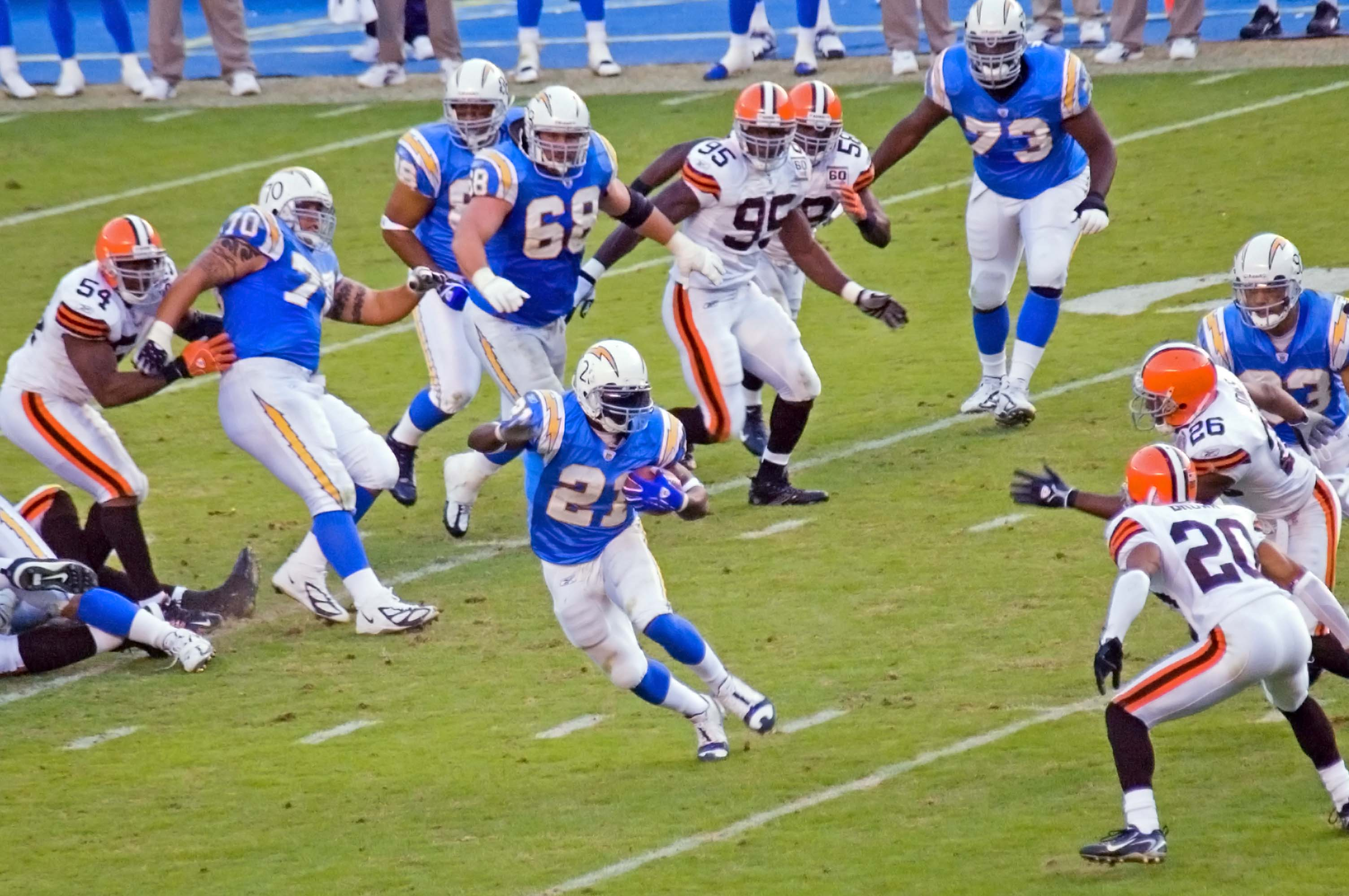 LaDainian Tomlinson of San Diego Chargers vs Cleveland Browns